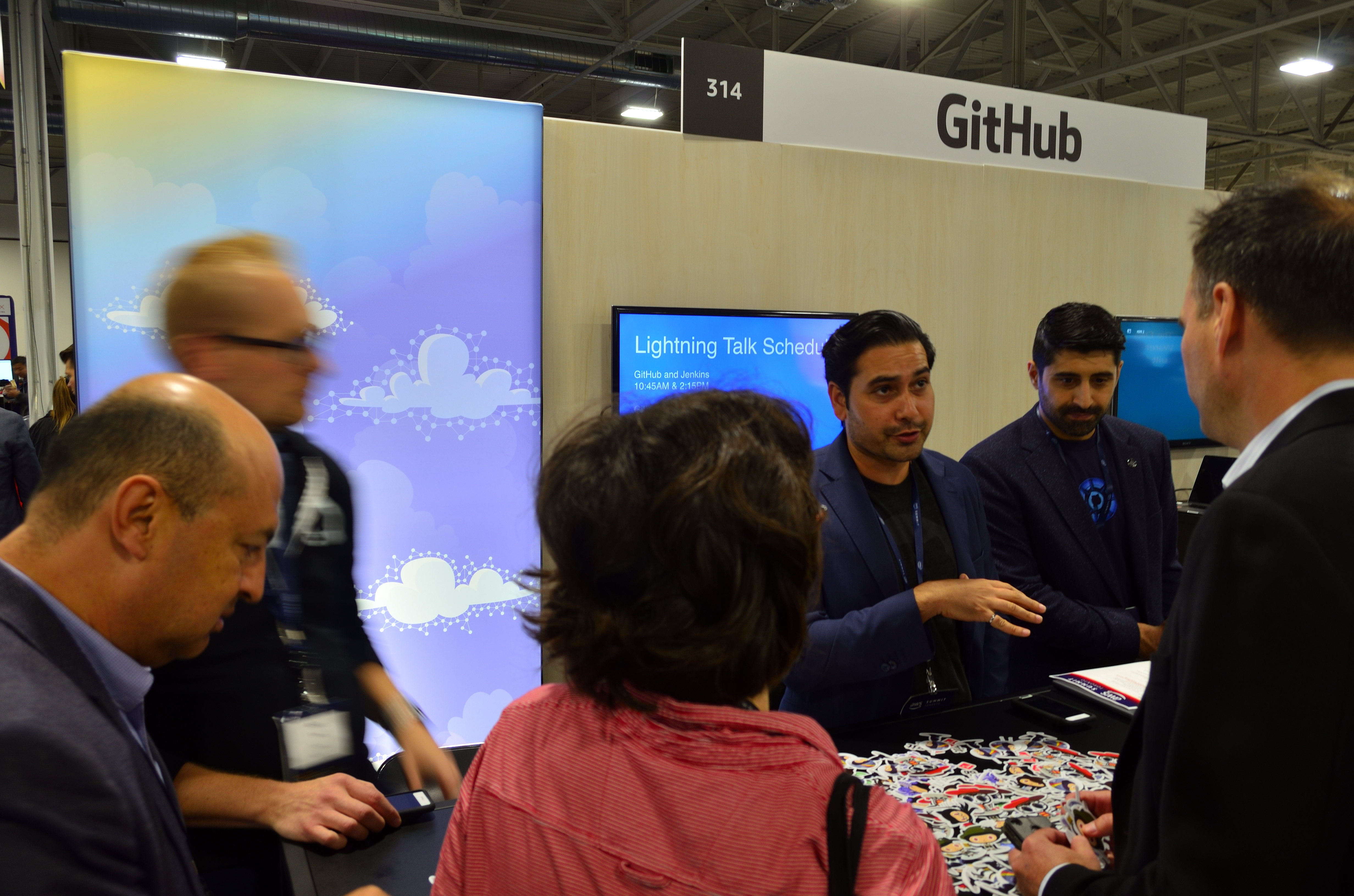 Github at AWS Toronto Summit 2018